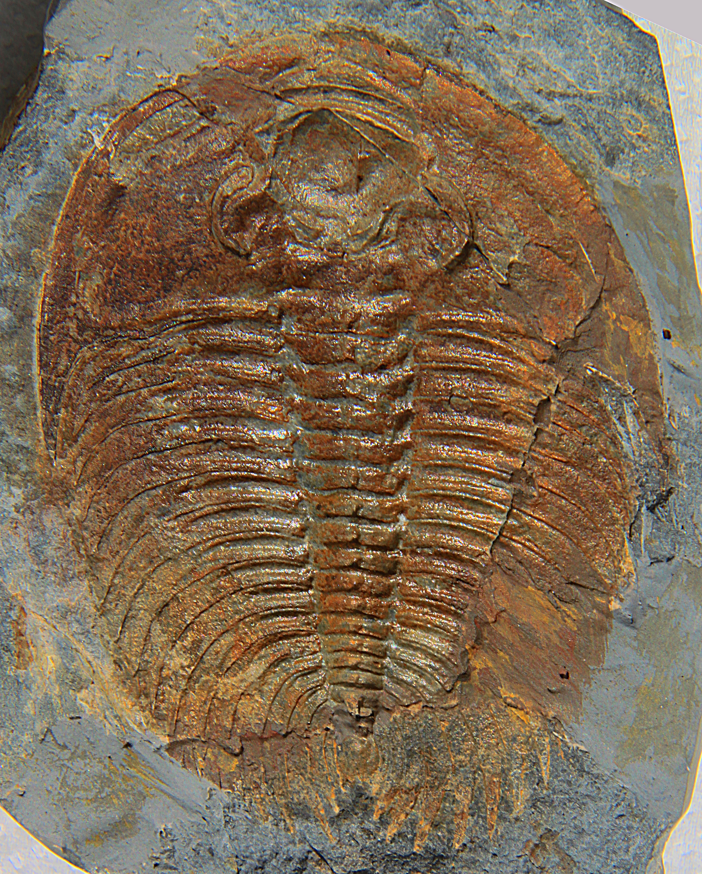 A Wanneria walcottana fossil, negative imprint, partially reconstructed (pleural region on the right, strip in the cephalon), corrected for deformation (shear), Family “Wanneriidae”, Order Redlichiida, 61mm measured along the axis, collected from the Kinzers Formation, Lancaster County, Pennsylvania, USA, from the Lower Cambrian (Botomian) , purchased from Geological Enterprizes, Ardmore, OK